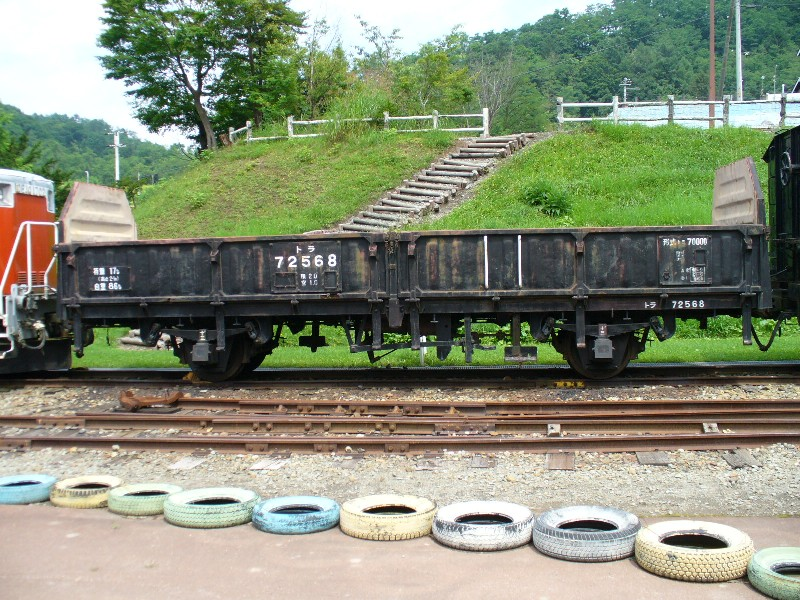 Japan National Railway type "Tora 70000" flatcar preserved at Mikasa Tetsudoumura.